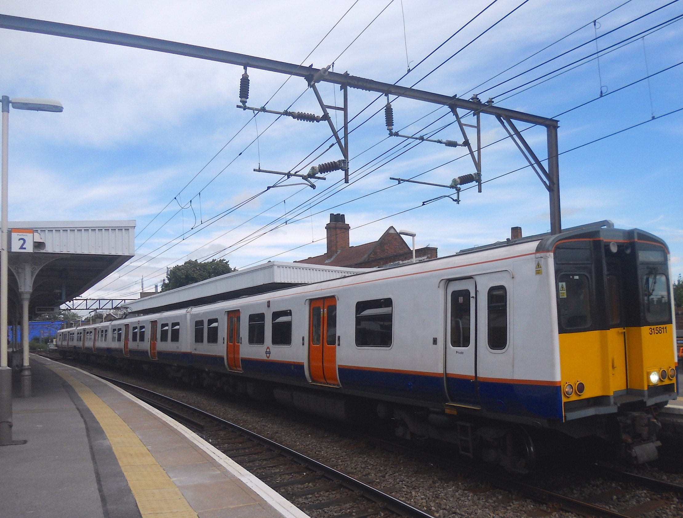 London Overground Class 315 No. 315811 at Hackney Downs